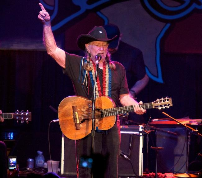 Willie Nelson and Family at Billy Bob's Texas for Willie's 4th of July Picnic in Fort Worth, Texas